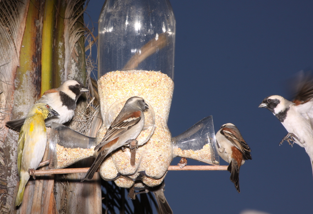 Birds around a bird feeder made from a Coke bottle in Johannesburg, South Africa. From left to right, a male Southern Masked Weaver, a male Cape Sparrow, a female Cape Sparrows, and two male Cape Sparrows. It is midwinter, so the birds are in on-breeding plumage.